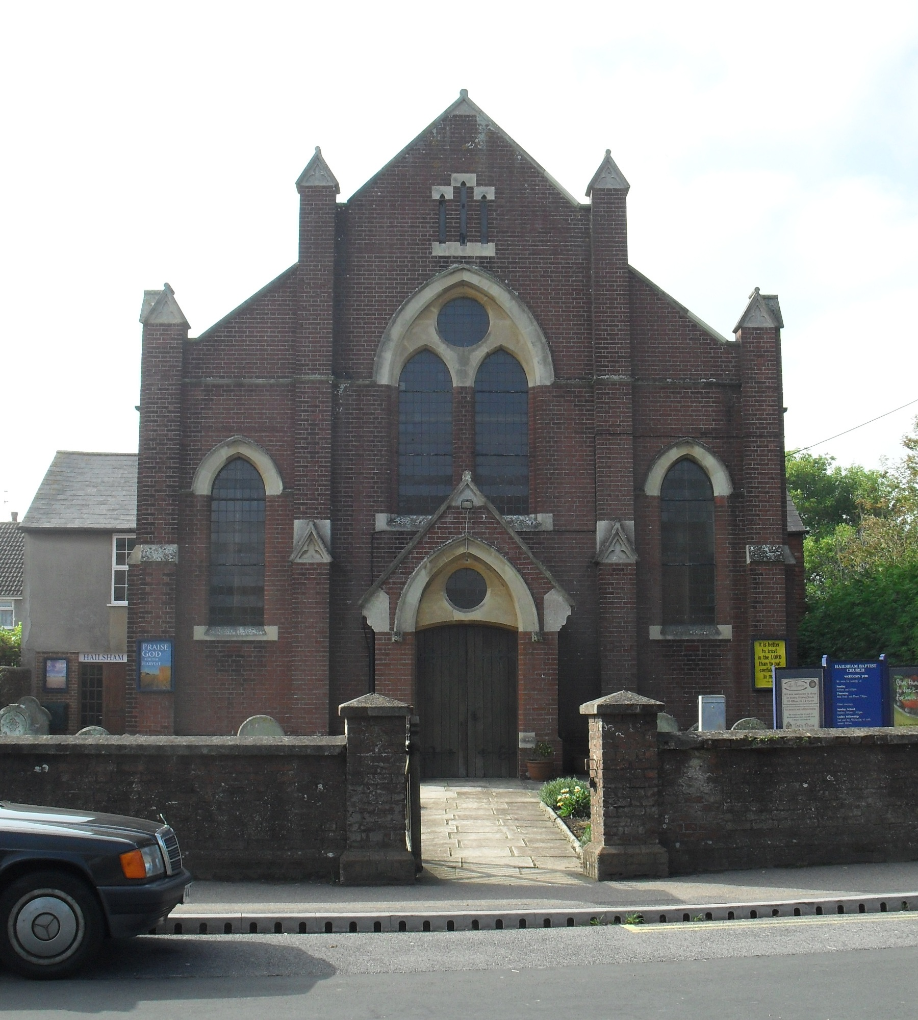 Hailsham Baptist Church, Market Street, Hailsham, Wealden, East Sussex, England.